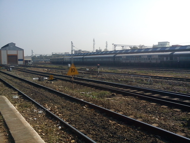 LOCO WARE HOUSE IN MADURAI JUNCTION